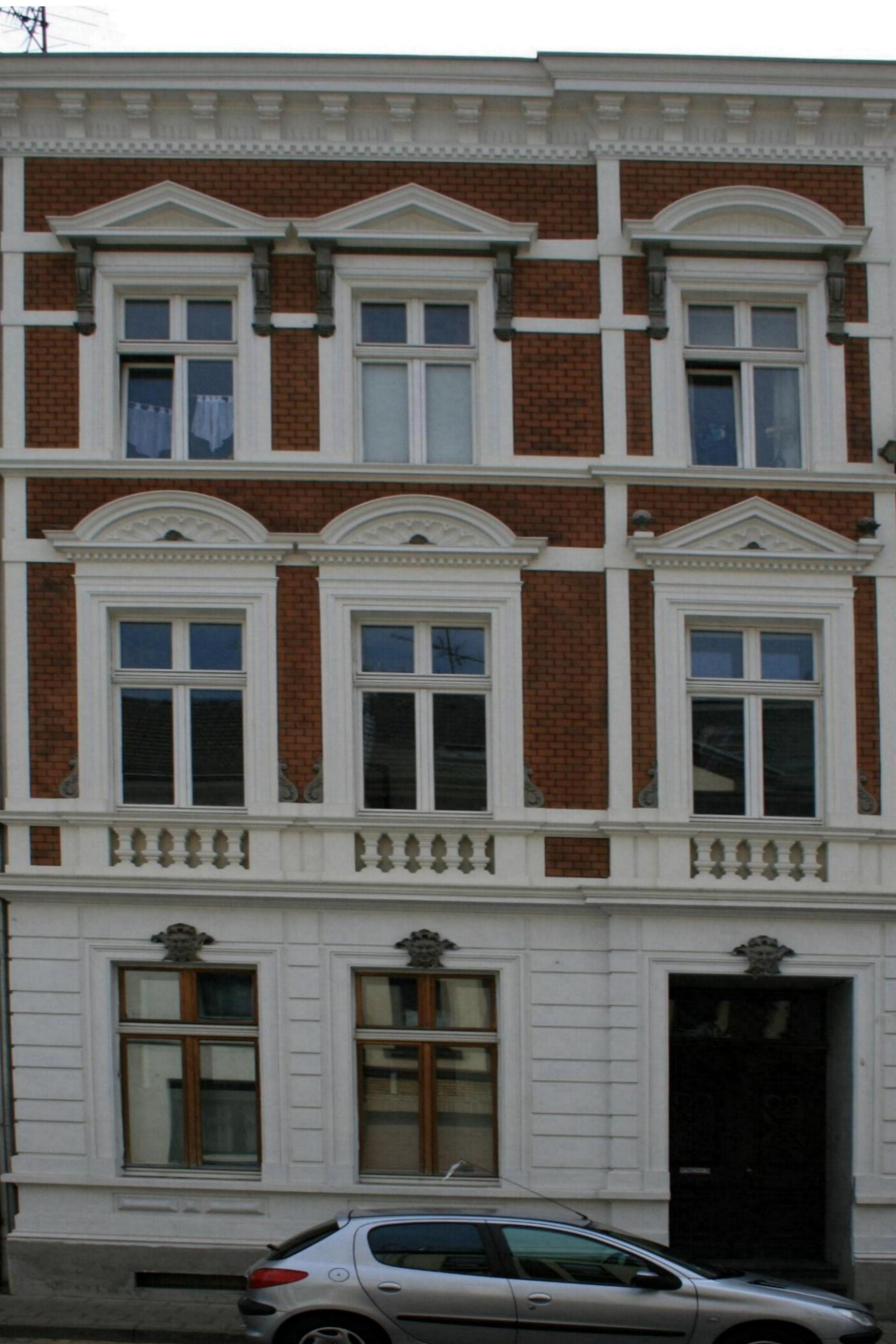 Cultural heritage monument No. H 039 in Mönchengladbach